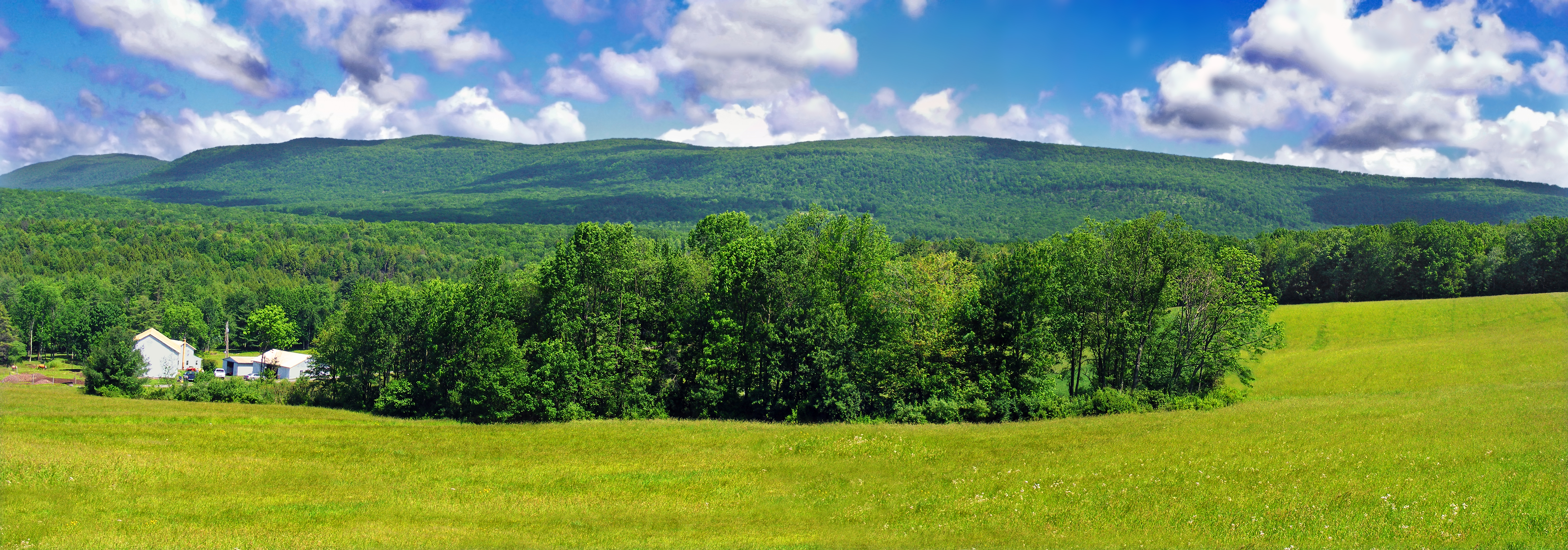 Allegheny Front, Sugarloaf Township, Columbia County.